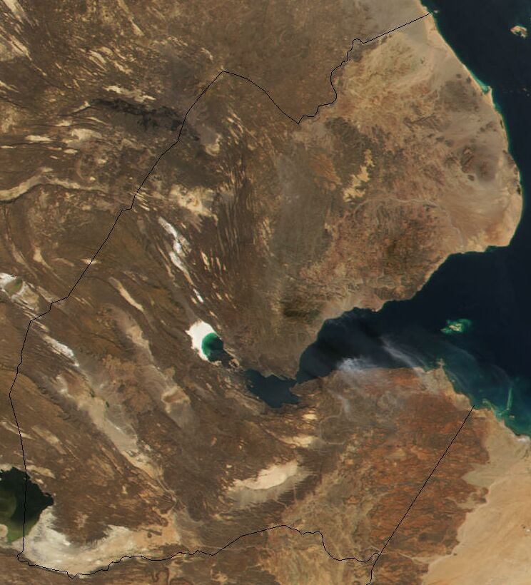 Satellite image of Djibouti in November 2001.